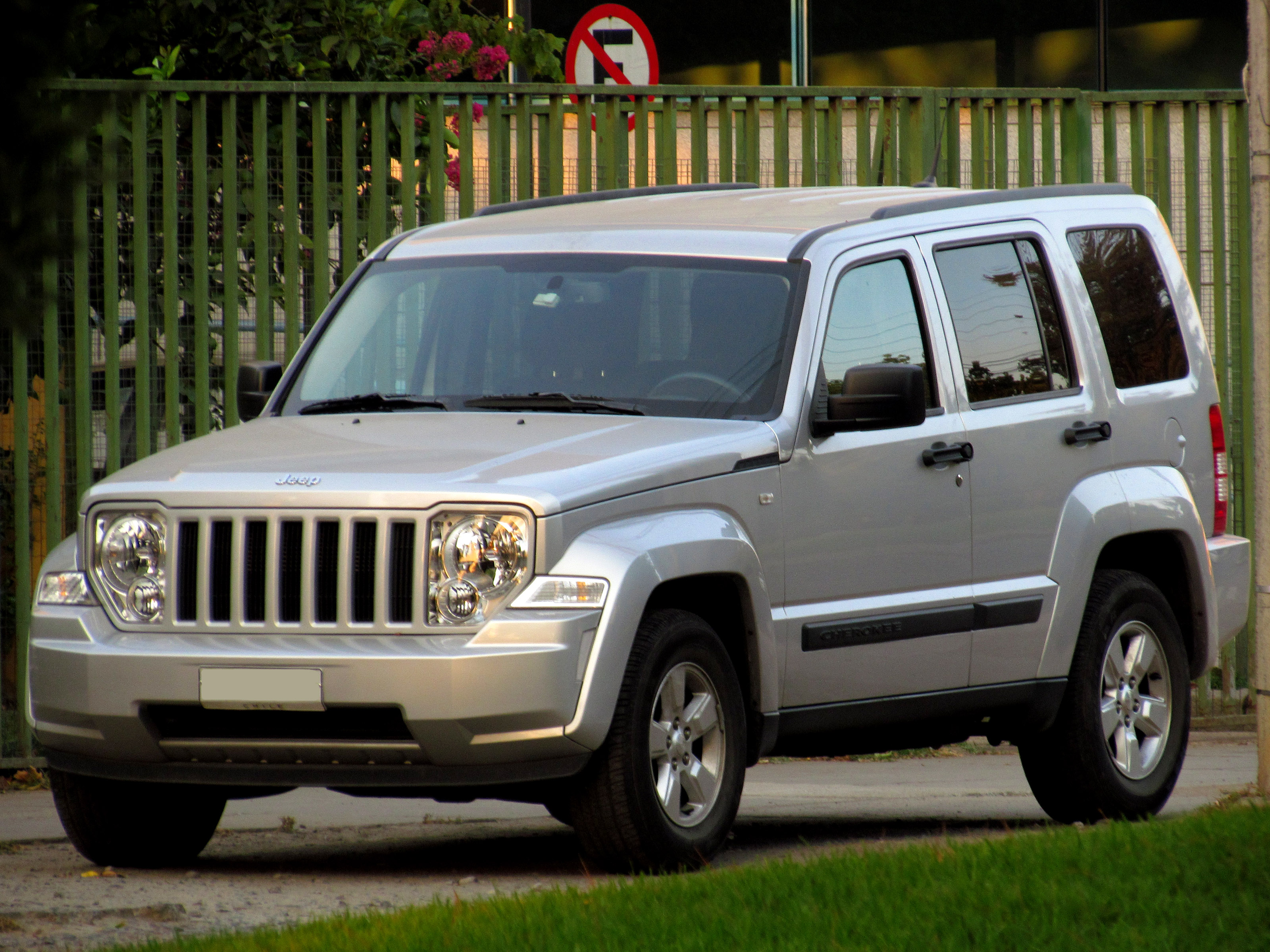 Jeep Cherokee Liberty 2.8 CRD 2012